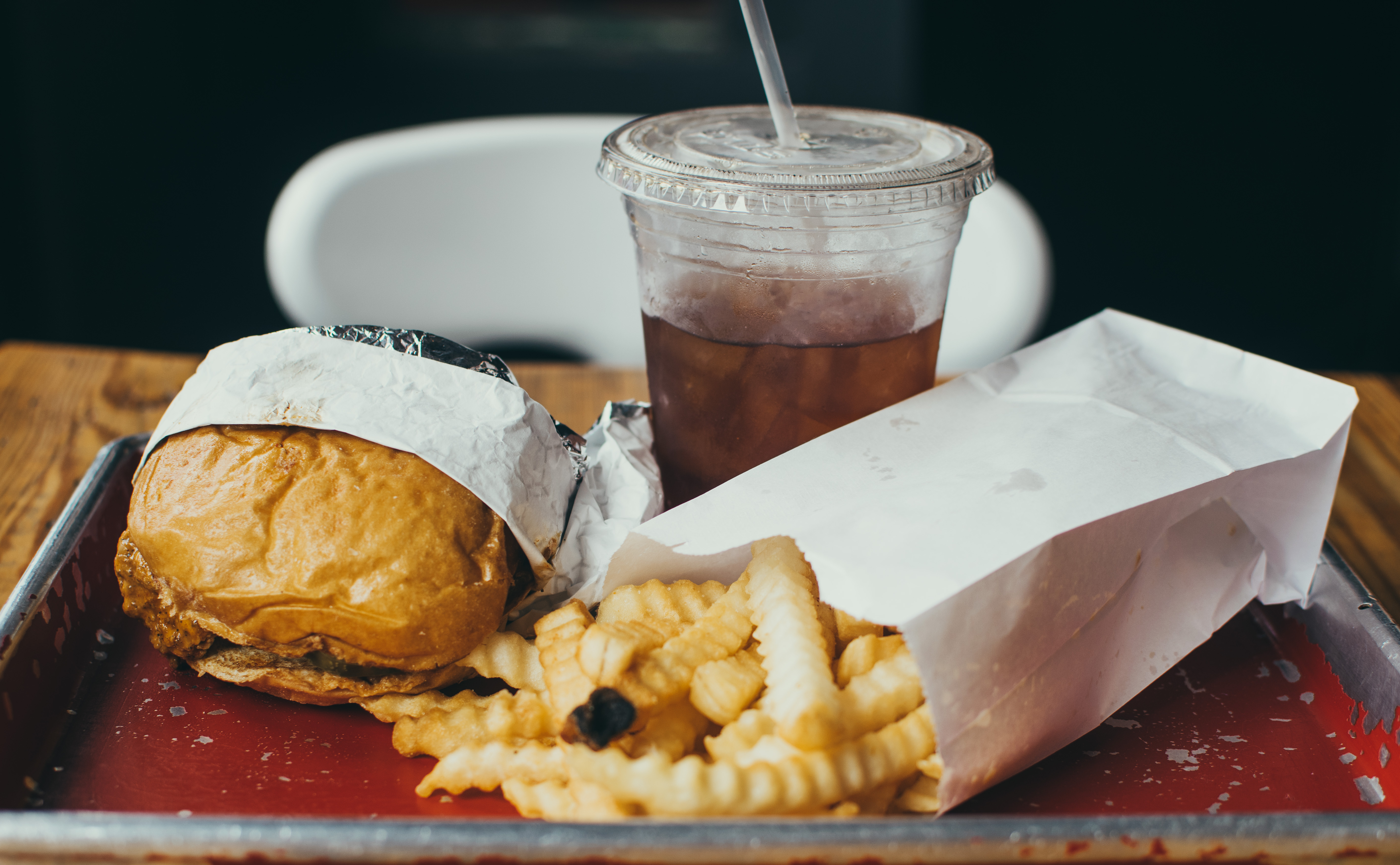 Christopher Flowers 2017